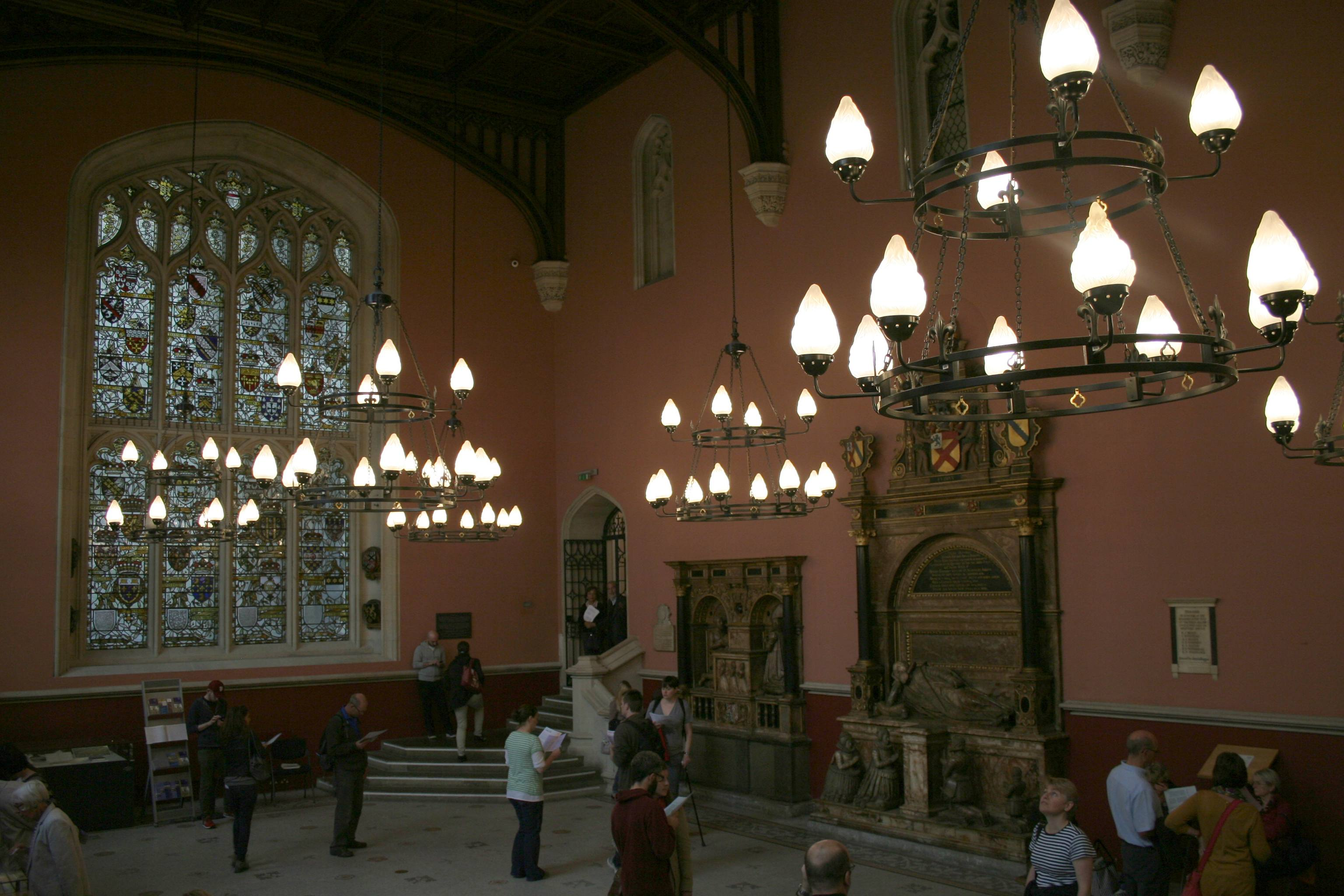 The Weston Room of the Maughan Library, King's College London in September 2013.